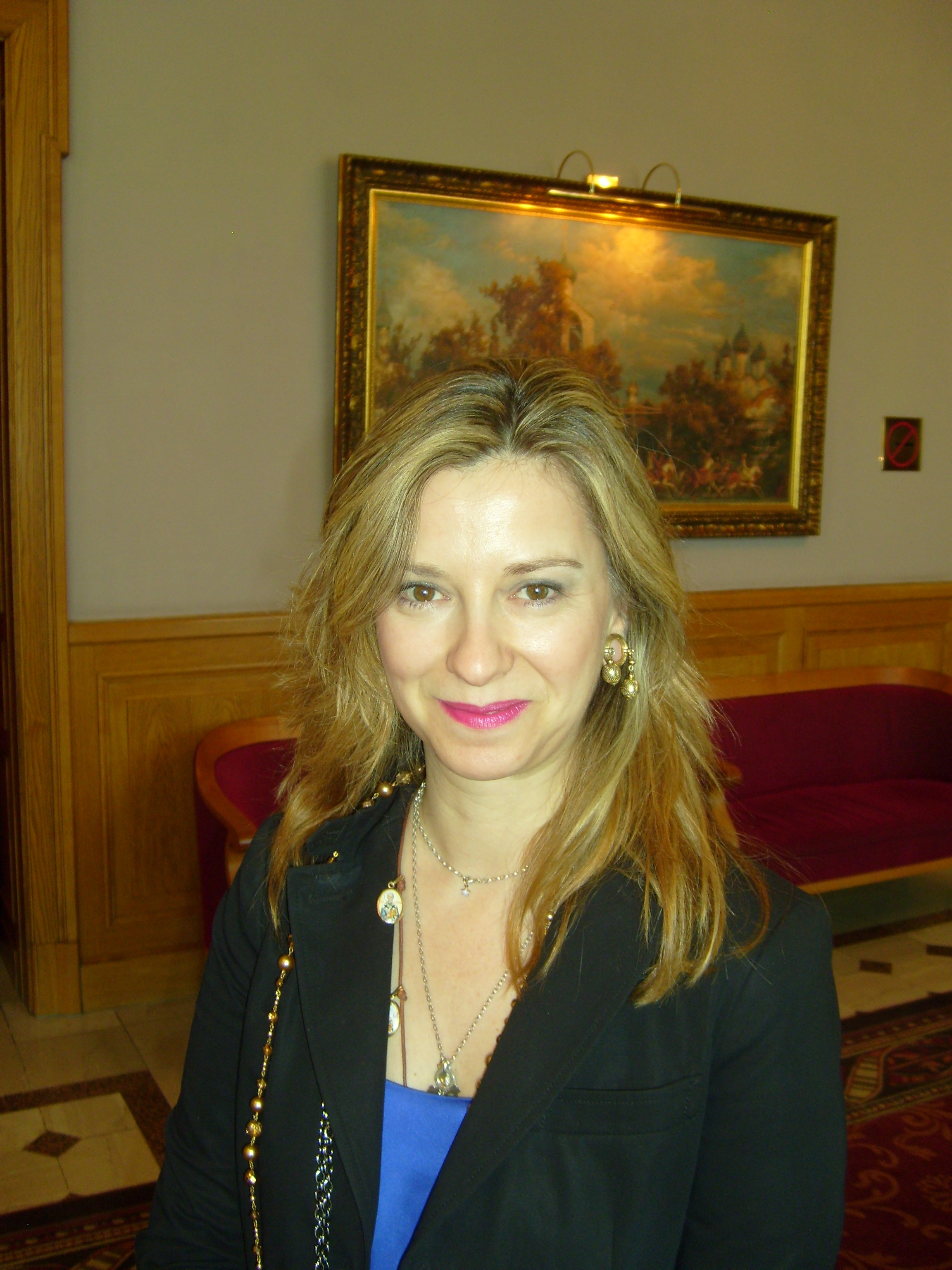 Mirjana Jokovic at National Hotel in Moscow, June 2010